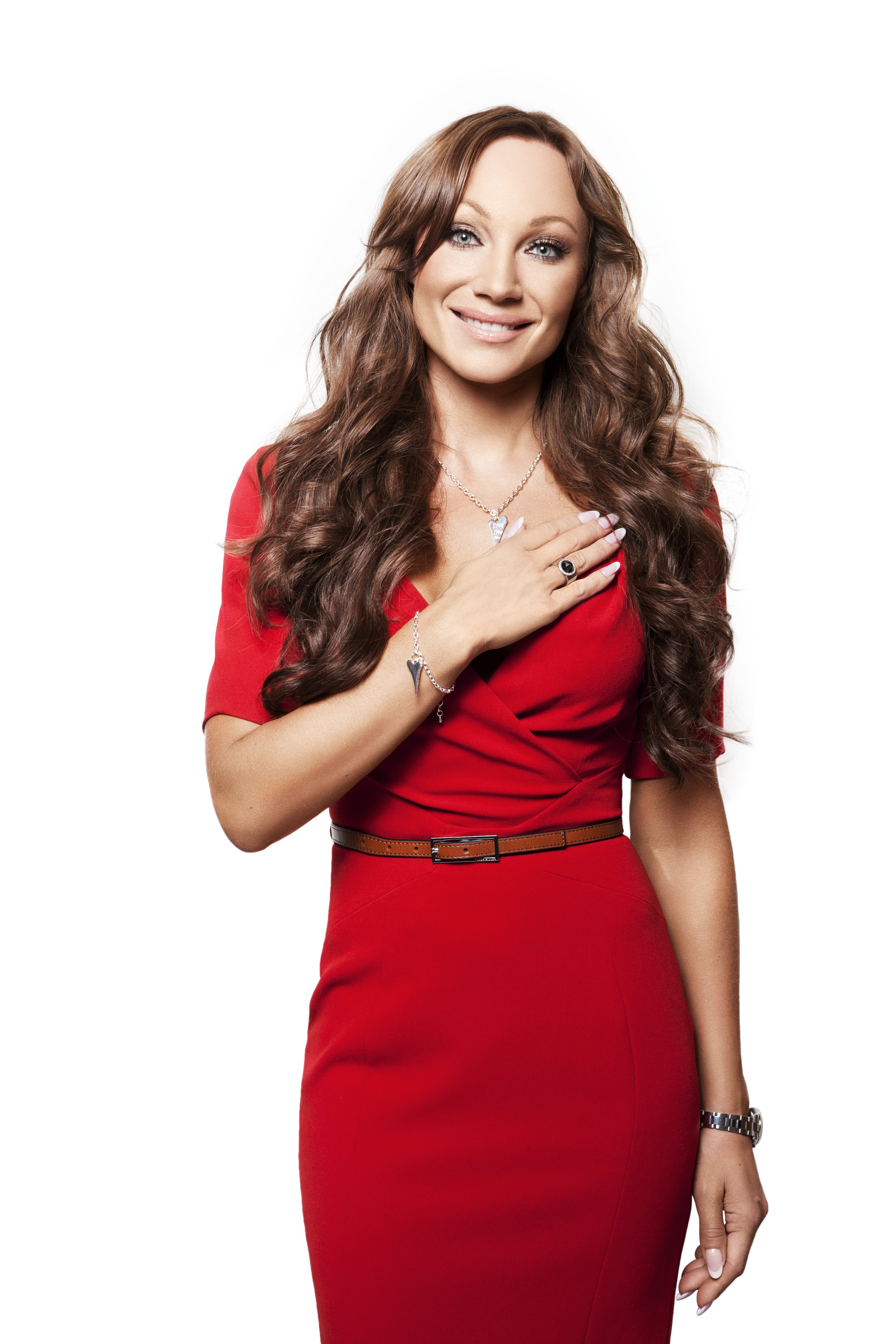 Swedish singer Charlotte Perrelli in a promotional photo for the The Swedish Heart-Lung Foundation.